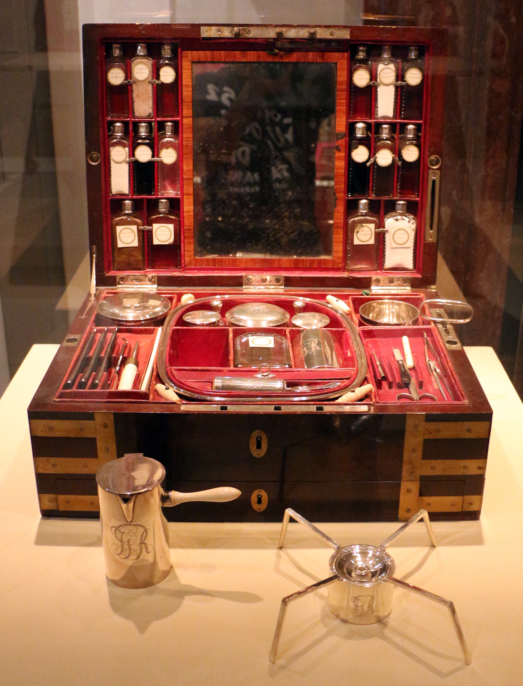 Furniture in the Museu Nacional de Arte Antiga